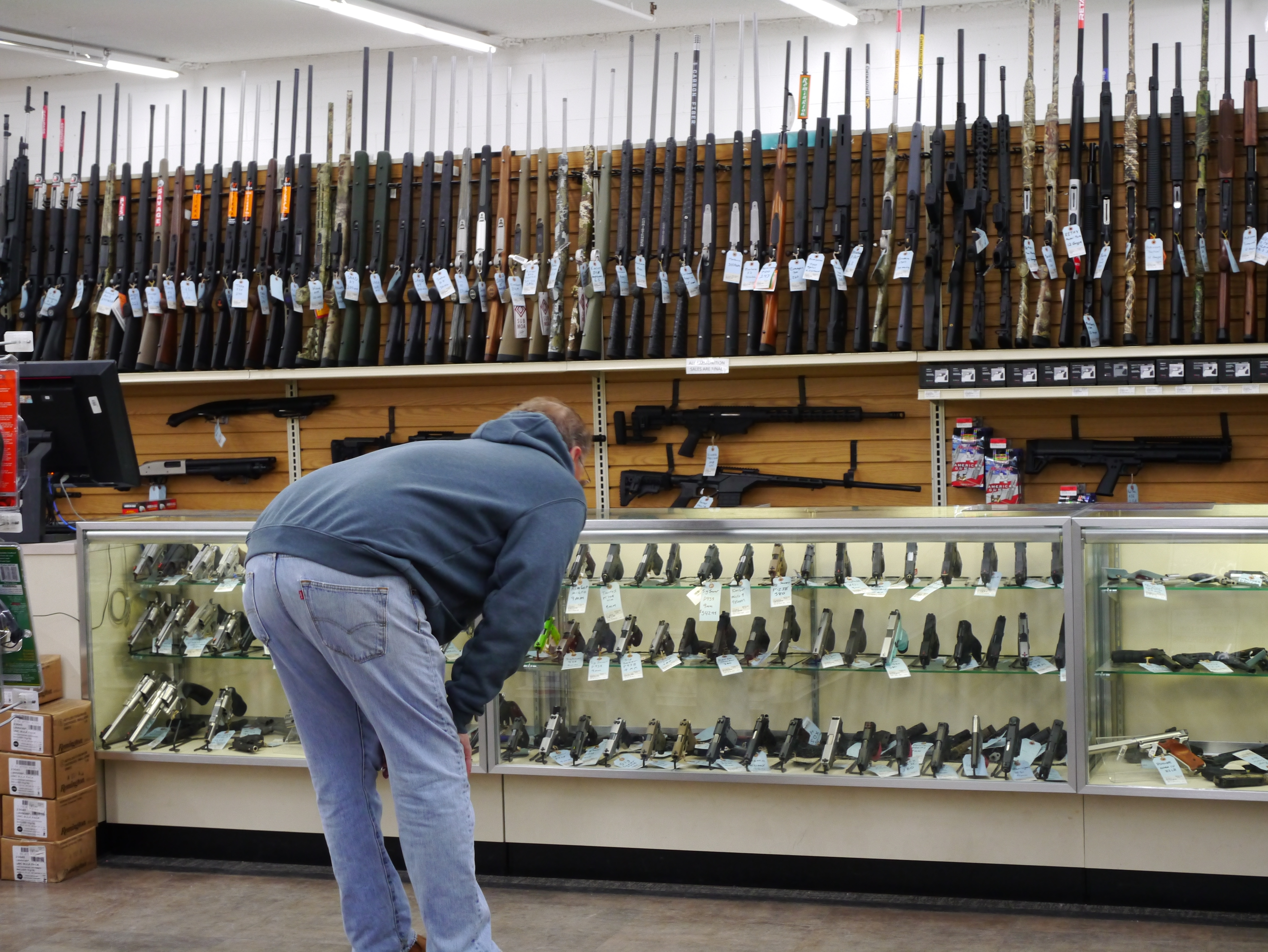 Gun section in Stans Merry Mart, Wenatchee Washington